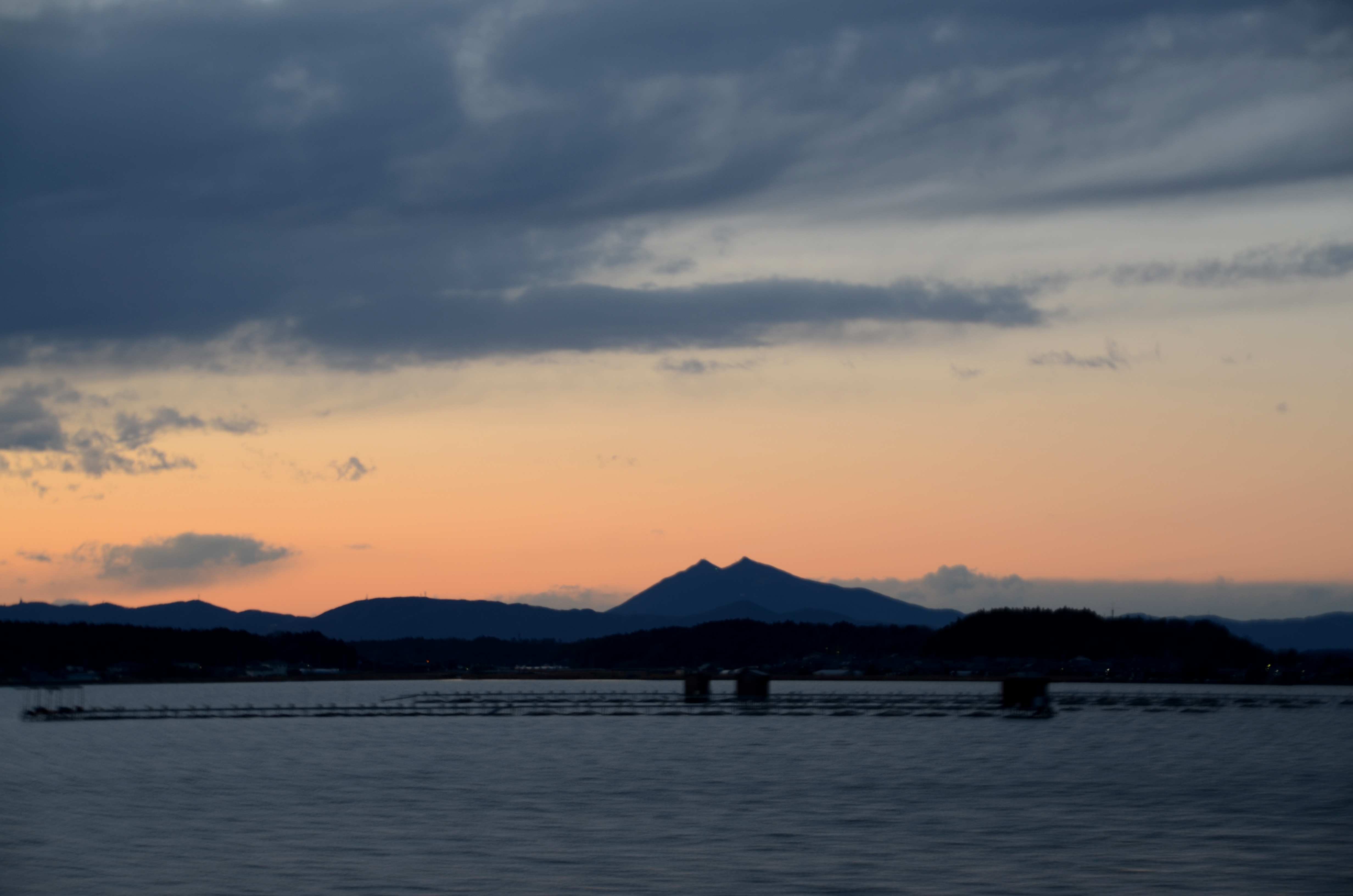 Tsukuba San From Kasumigaura Lake. Japan